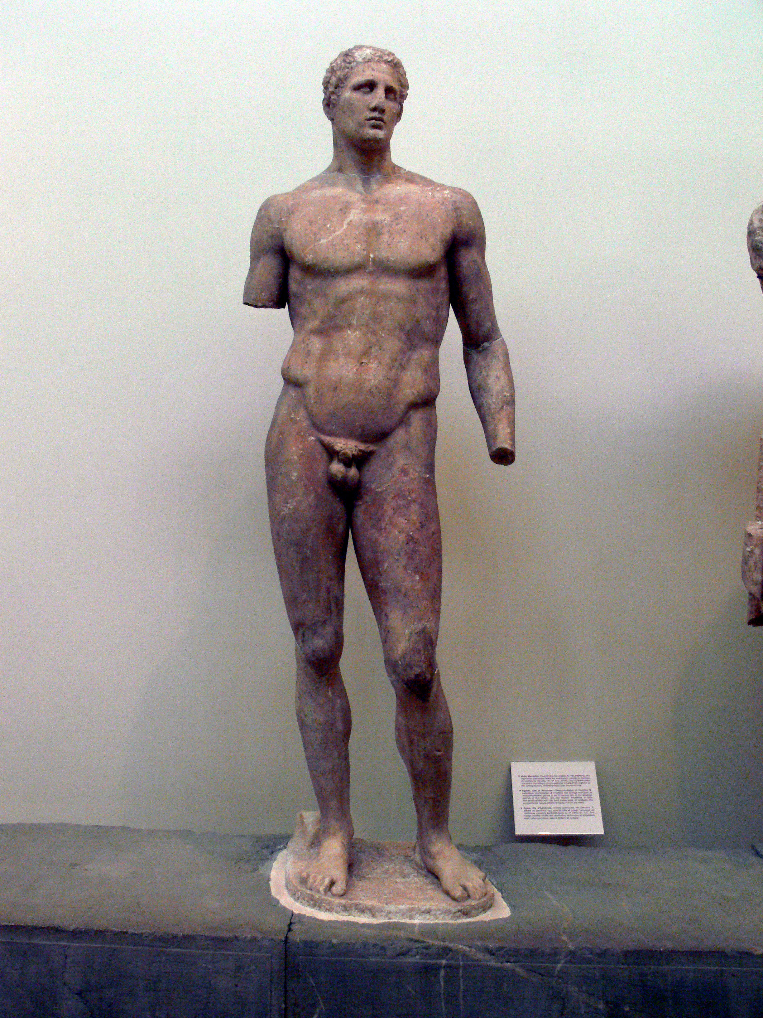 Statue of Hagias, possibly by Lysippos or his son Euthykrates (RIDGWAY, B. Hellenistic sculpture, 2001), from the votive of Daochos II in Delphi. Marble copy of a bronze original. Missing right arm and left hand, knees and calves. The nose is slightly damaged.